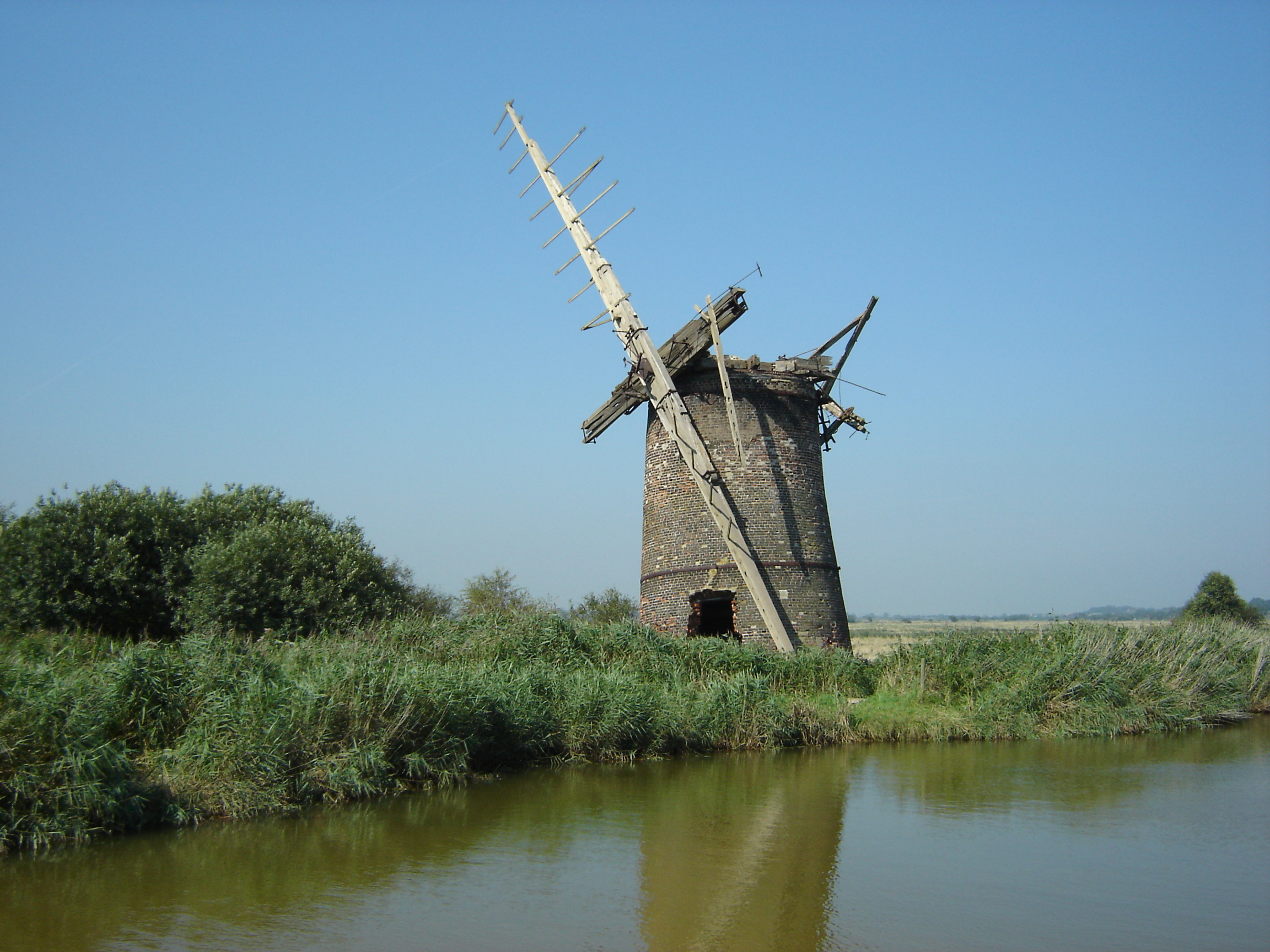 Picture Taken By Ian Martin. 31st August 2005. Brograve Mill located on the Waxham New Cut, Norfolk, United Kingdom